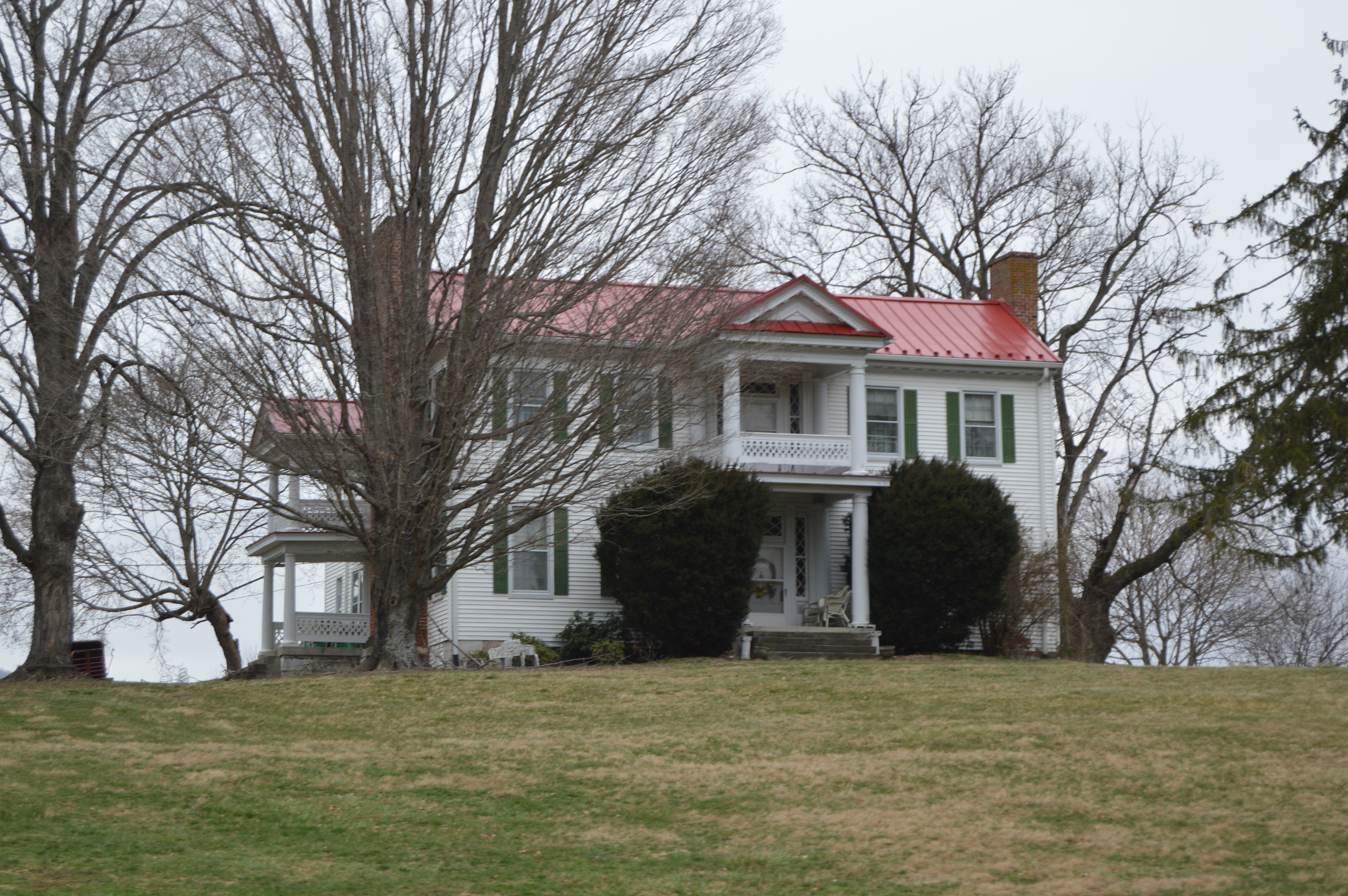 Front and western side of the Maiden Spring farmhouse, located on Wardell Road southeast of Claypool Hill in Tazewell County, Virginia, United States. The farmstead is listed on the National Register of Historic Places.